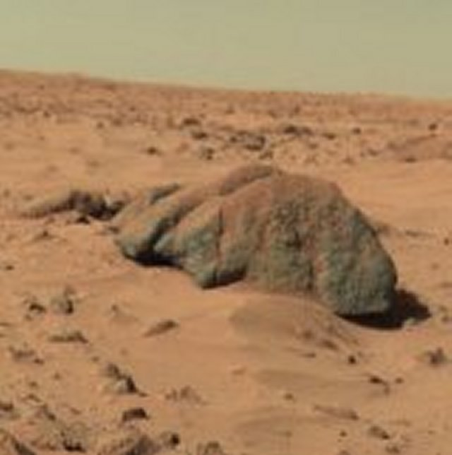 This picture was taken by the Viking Lander 1 on February 11, 1978 on Sol 556. The large rock just left of the center is about two meters wide. This rock was named "Big Joe" by the Viking scientists. The top of the rock is covered with red soil. Those portions of the rock not covered are similar in color to basaltic rocks on Earth. Therefore, this may be a fragment of a lava flow that was ejected by an impact crater. Based on images from the NASA Viking image archive Crop/Up-Resize/JPG-Convert (using JASC Paint Shop Pro v 6.02) of file at